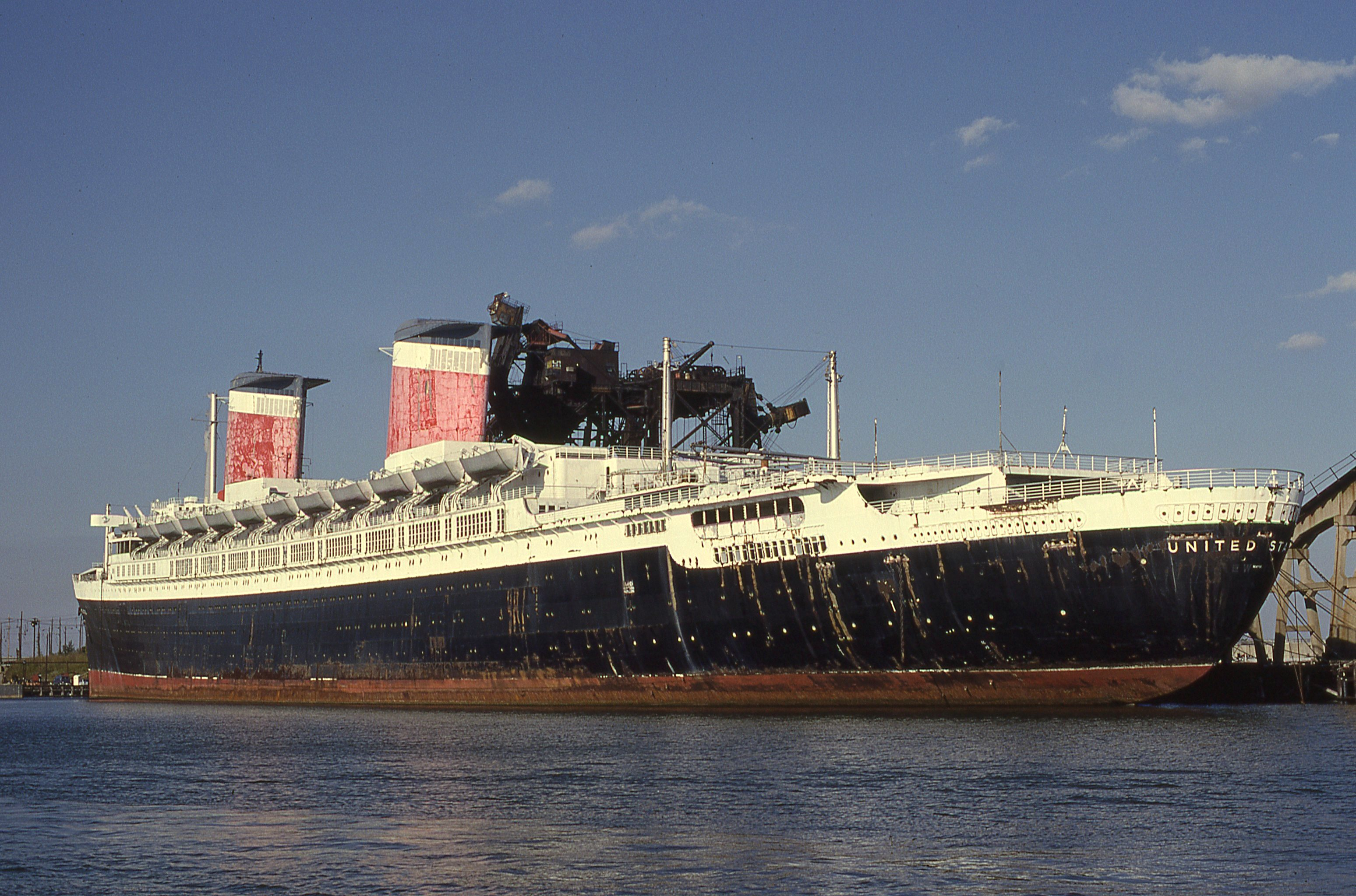 The liner United States laid up at Hampton Roads on October 8, 1989.